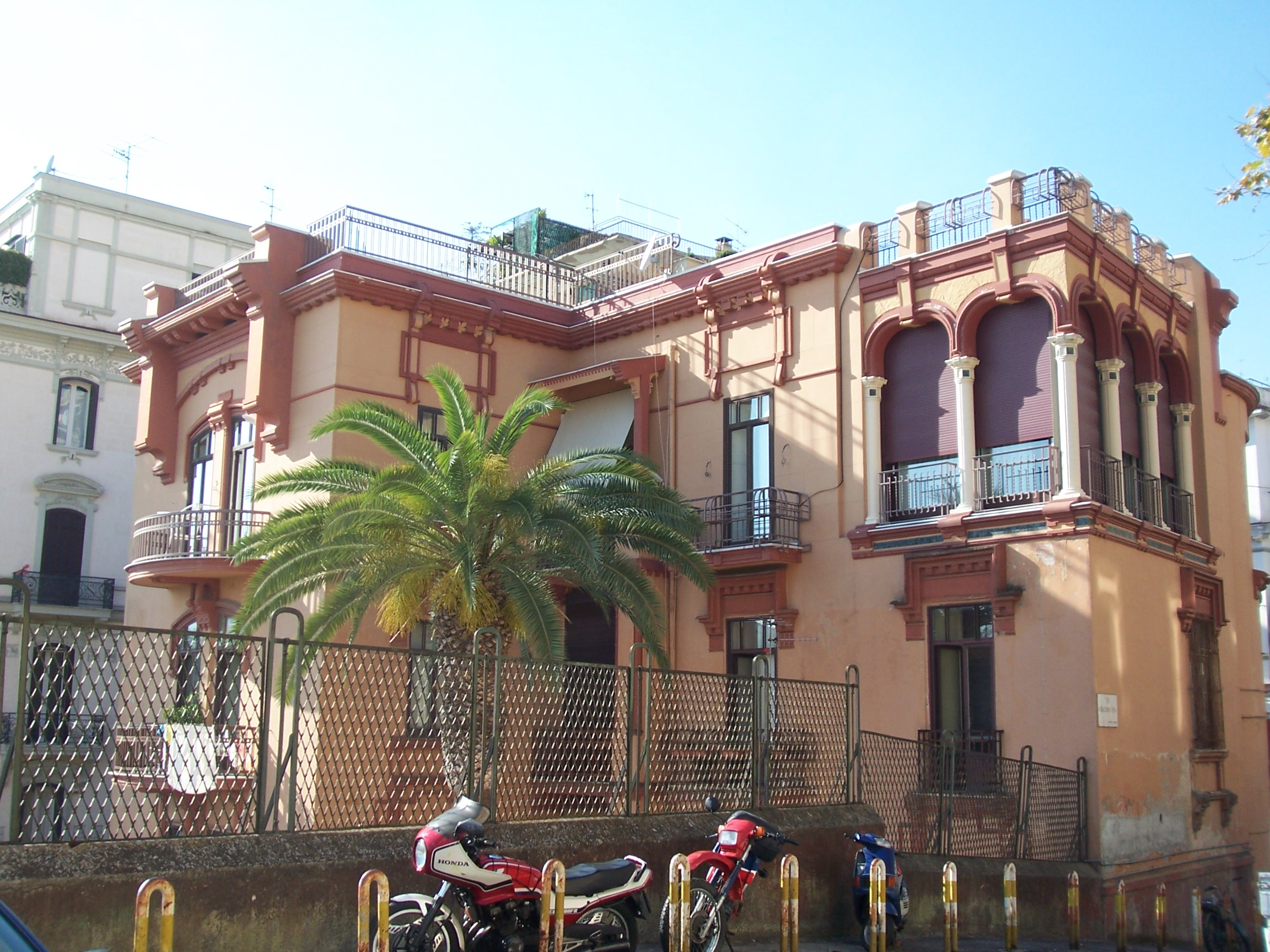 Villa Lorelay (retro) - Vomero, Naples